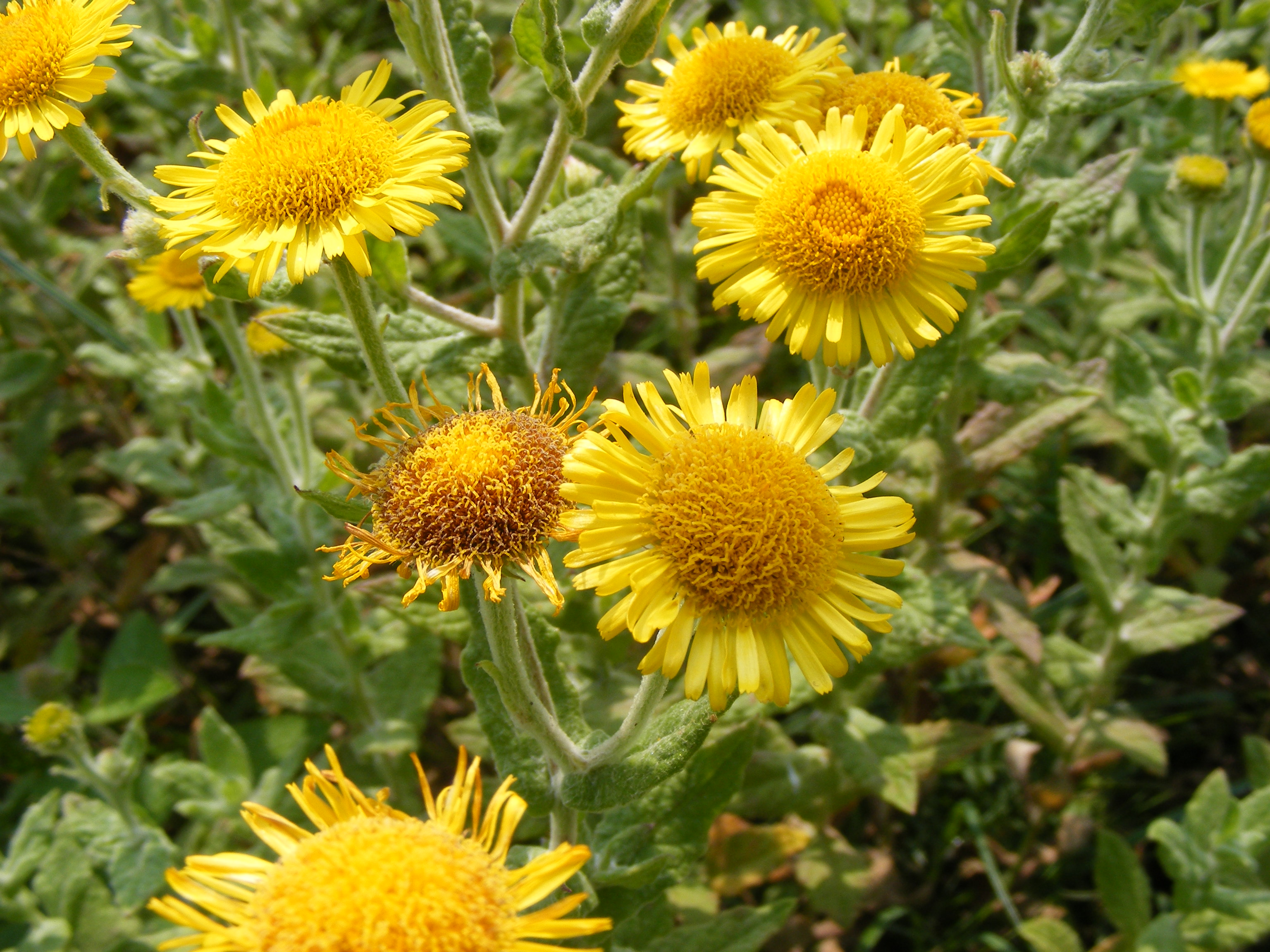 This photo shows Pulicaria dysenterica